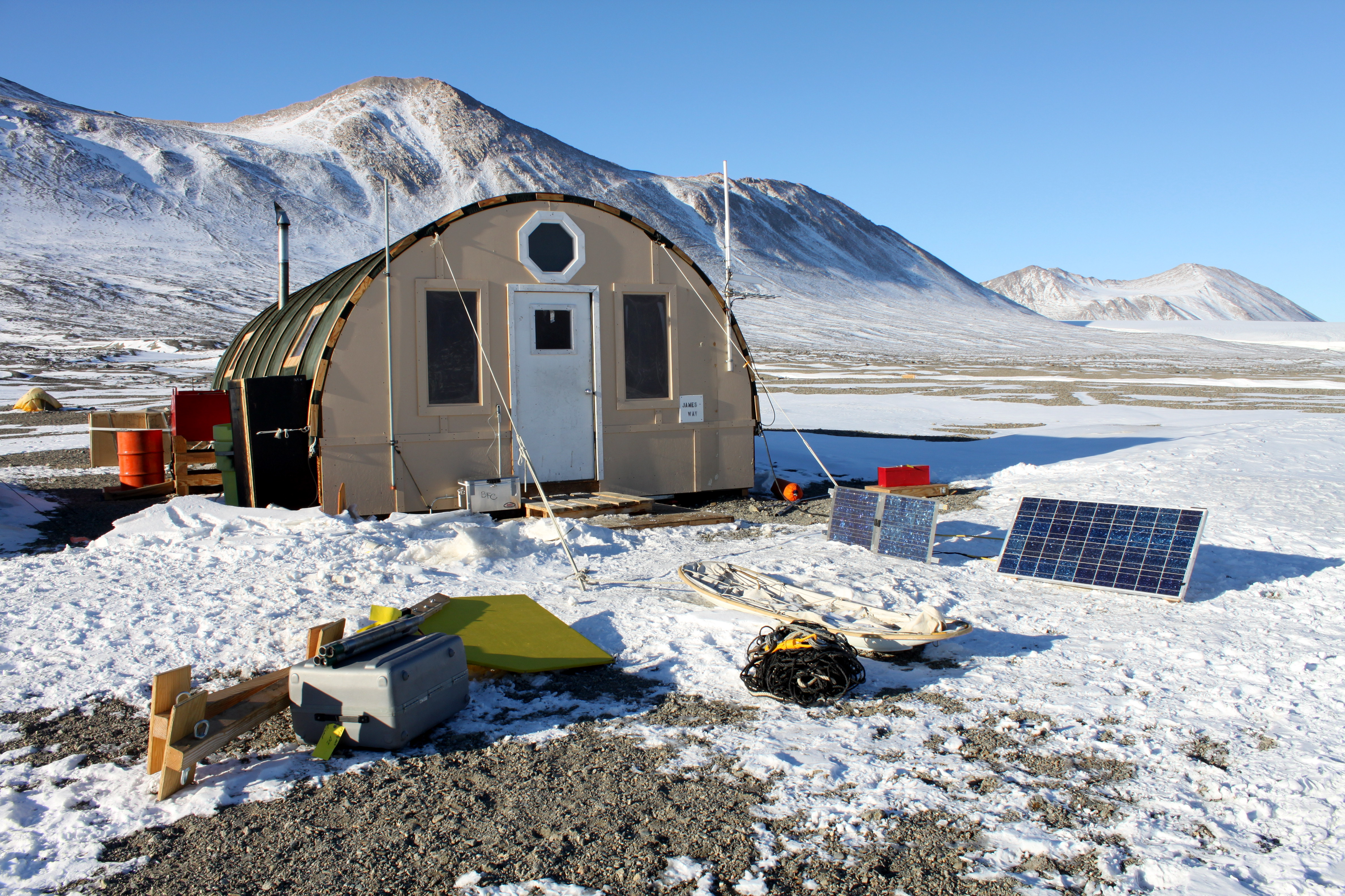 Field camp at Lake Fryxell in the McMurdo Dry Valleys, Antarctica